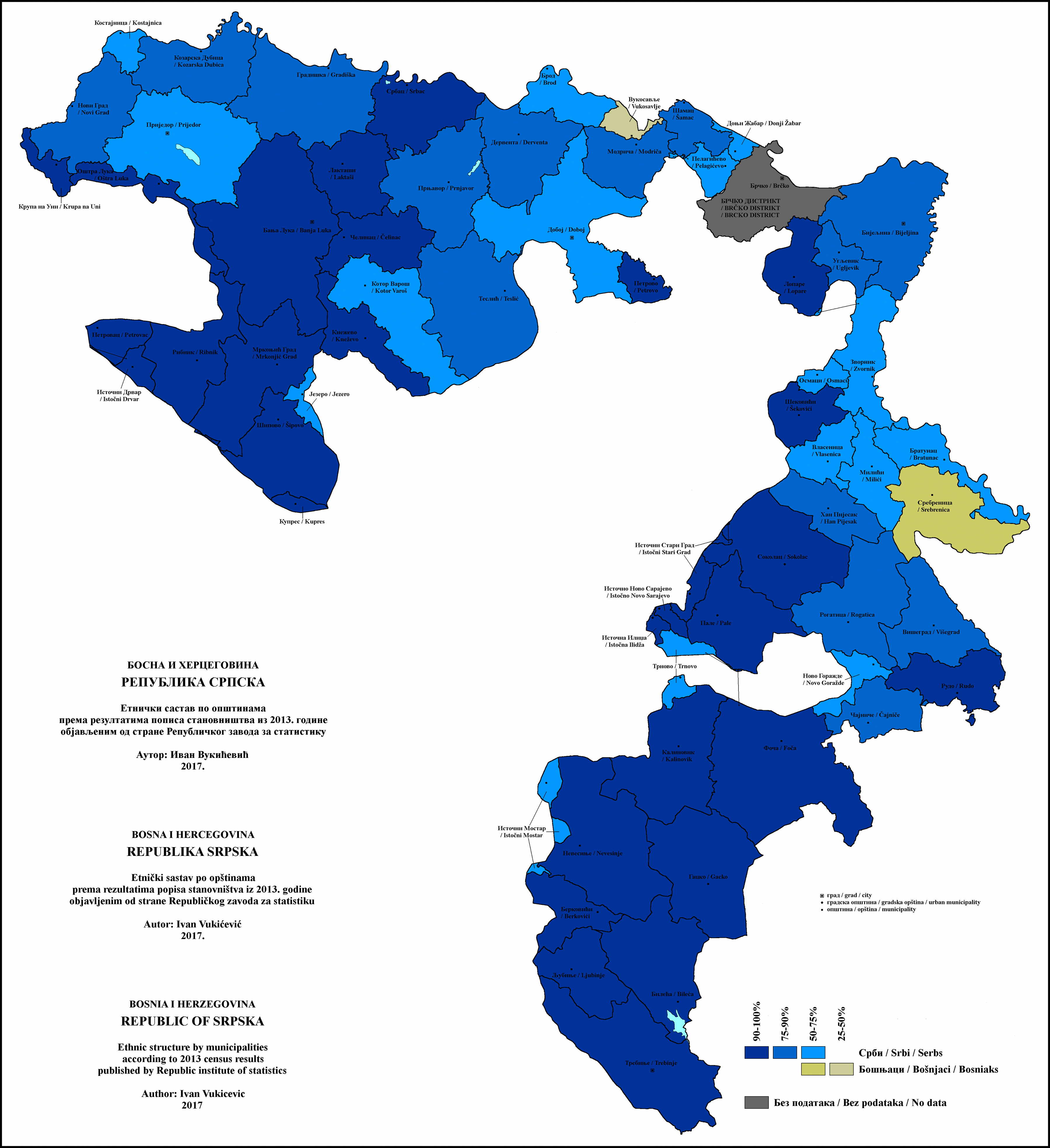 Ethnic structure of Republic of Srpska by municipalities 2013. Authorː Ivan Vukicevic